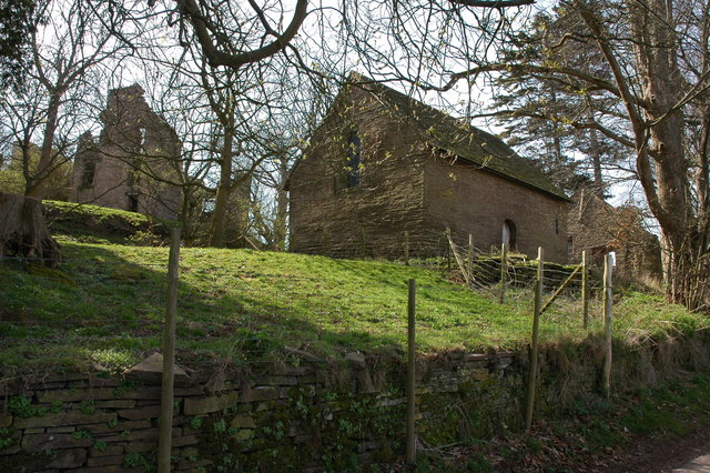 Old chapel at Urishay, near to Hinton, Herefordshire, Great Britain. To the left of the old chapel are the ruins of Urishay Castle.